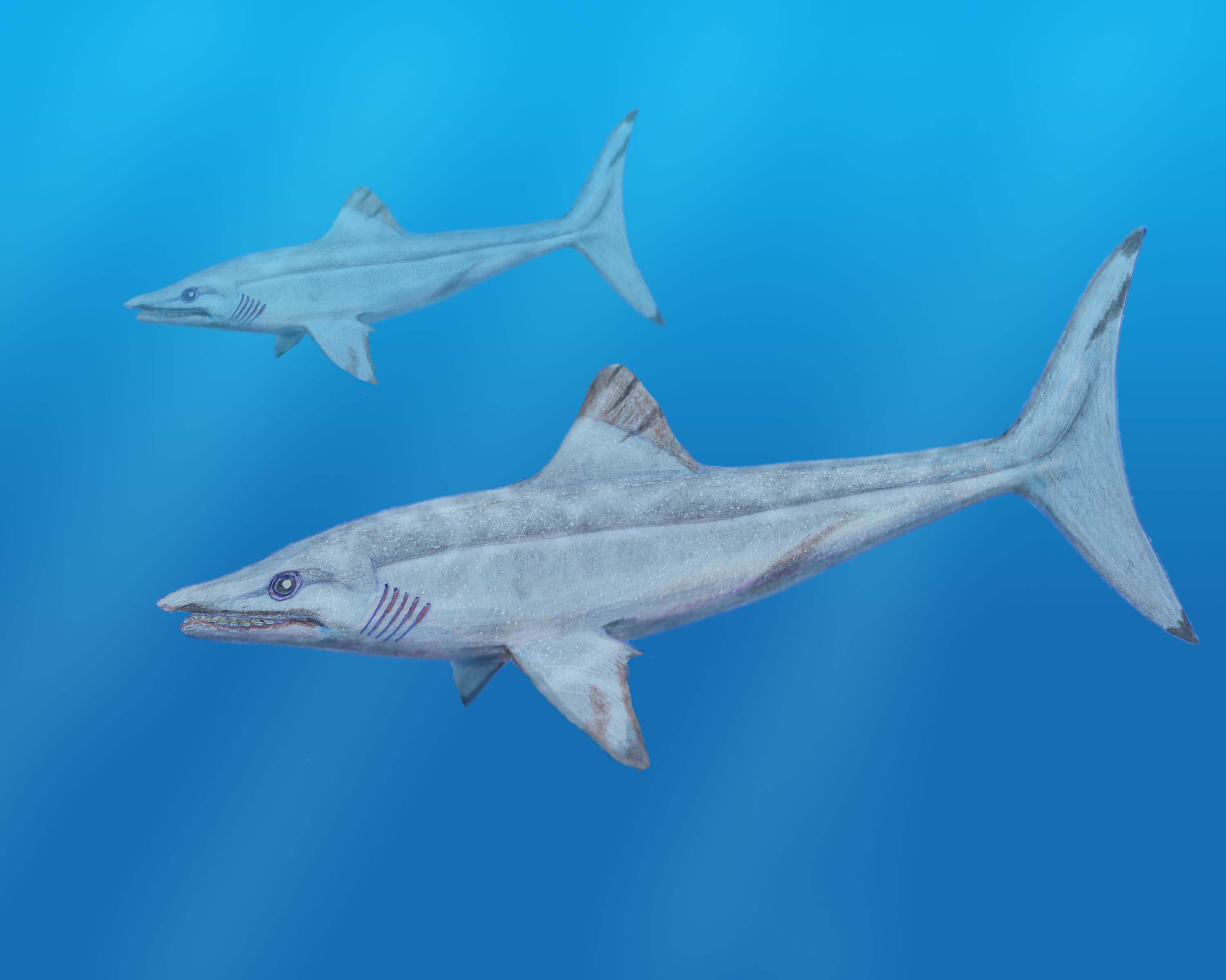 Caseodus - eugeneodontid "shark" from Carboniferous.